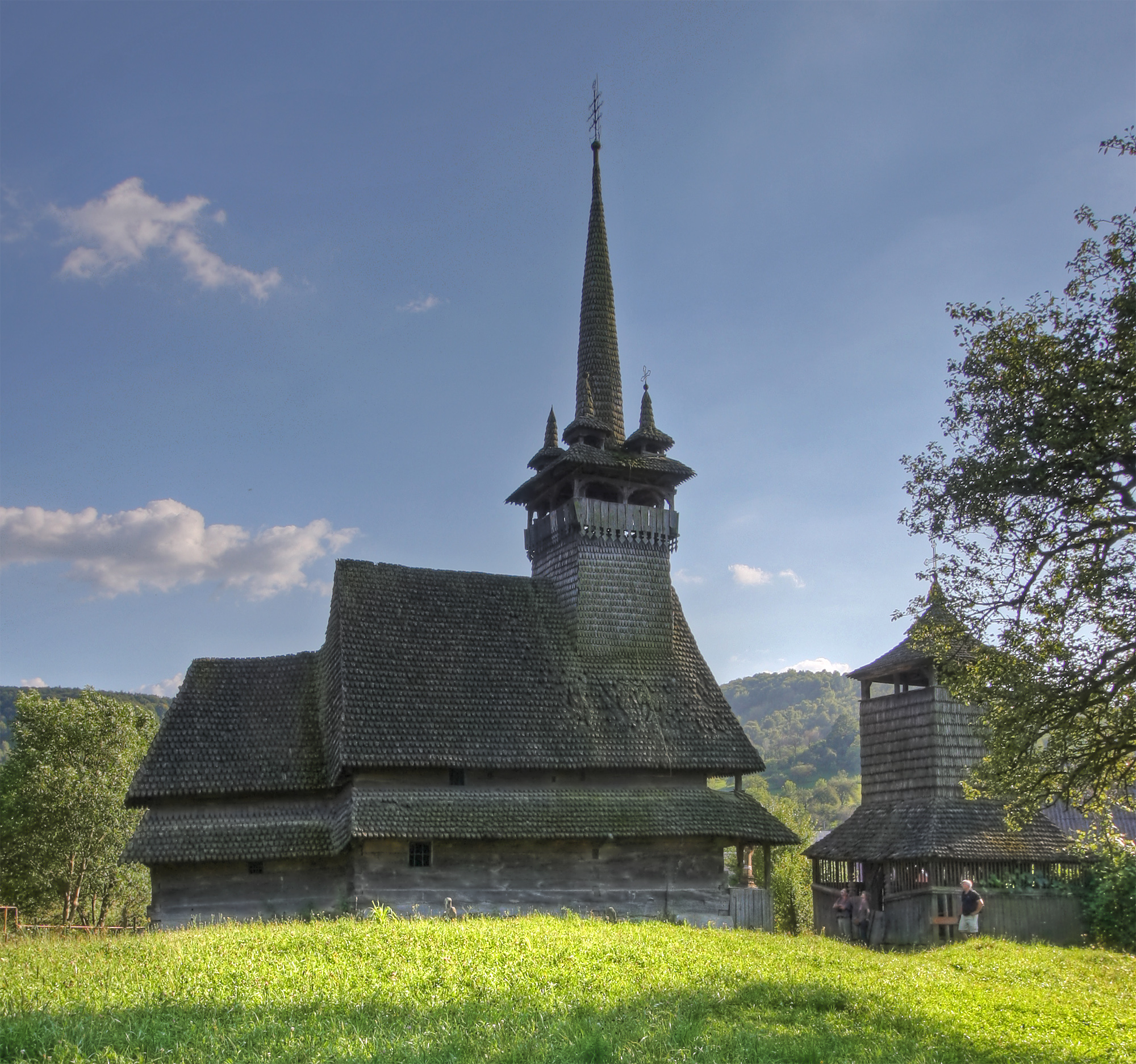 Church St. Paraskevi, Oleksandrivka, Khust Raion, Zakarpattia Oblast, Ukraine